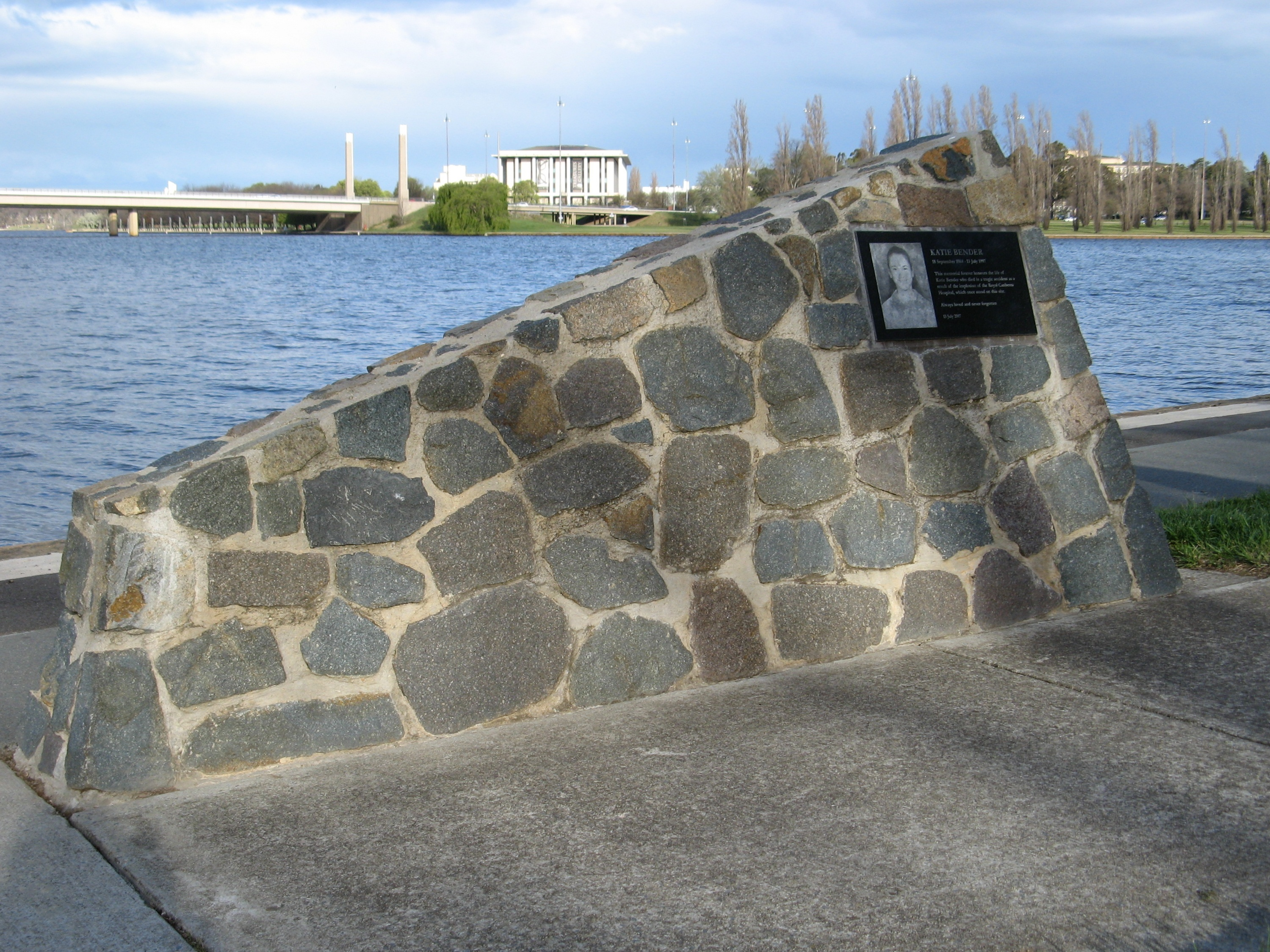 A memorial to Katie Bender, who was killed by debris during the demolition of the Royal Canberra Hospital in 1997.